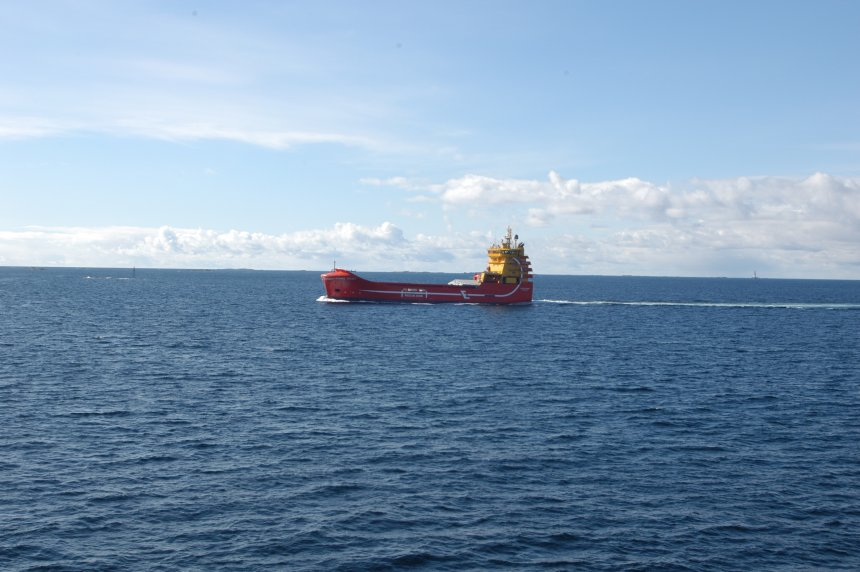 The Viking Avant, operated by Eidesvik Offshore Platform Supply Vessel IMO Number: 9306914 MMSI Number: 258403000 Callsign: LMSZ Length: 92 m Beam: 20 m